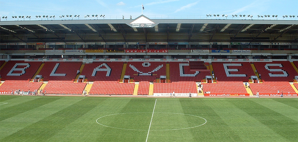 A view of the inside of Bramall Lane football stadium in Sheffield England looking towards the John Street Stand.